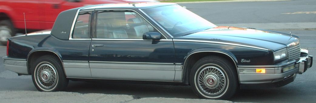 1986-1991 Cadillac Eldorado photographed in Montreal, Quebec, Canada.